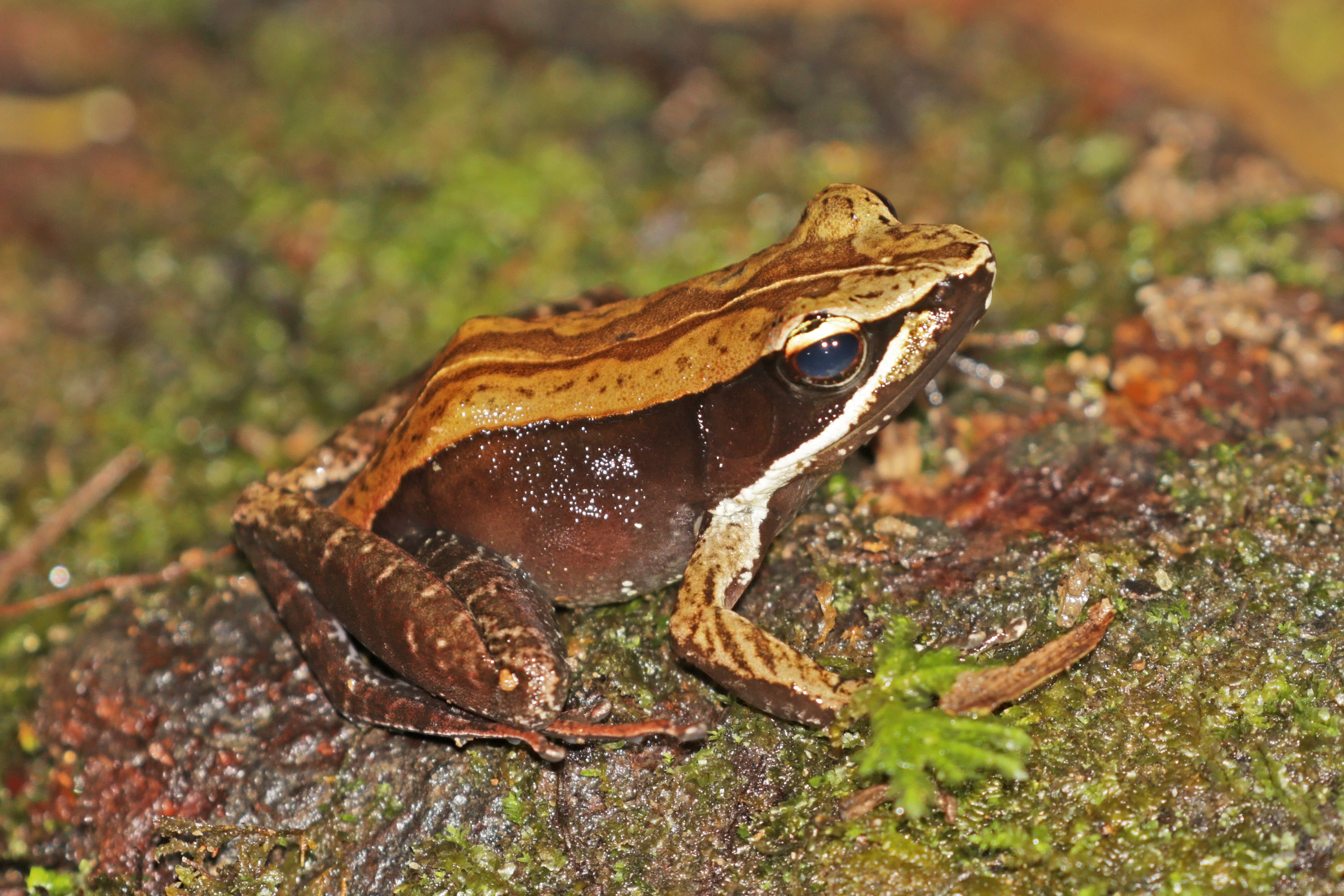 Mantellid frog (Mantidactylus melanopleura), Ranomafana National Park, Madagascar